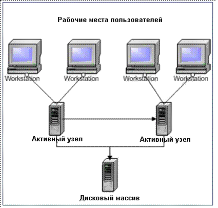 Cluster2